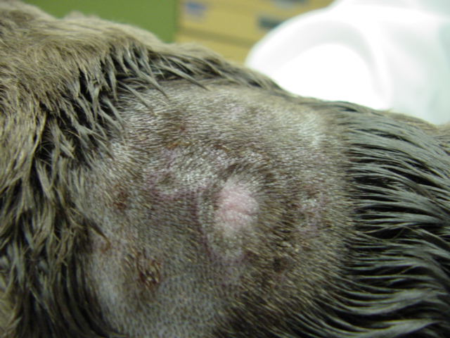 adverse reaction to application of topical spot-on flea control medication in a dog